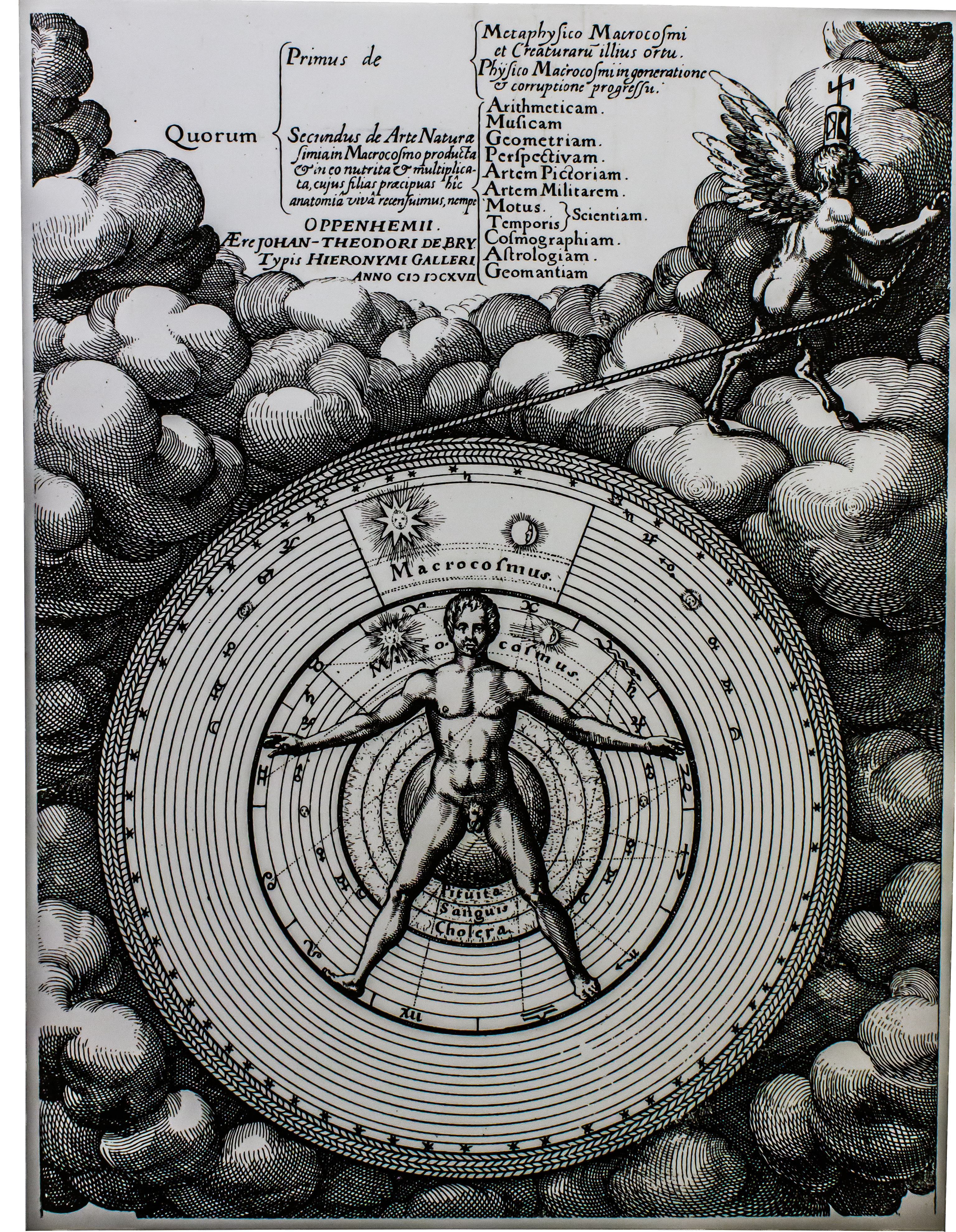 Clip from the frontpage of "Utriusque cosmi Historia" by Robert Fludd, 1617-19